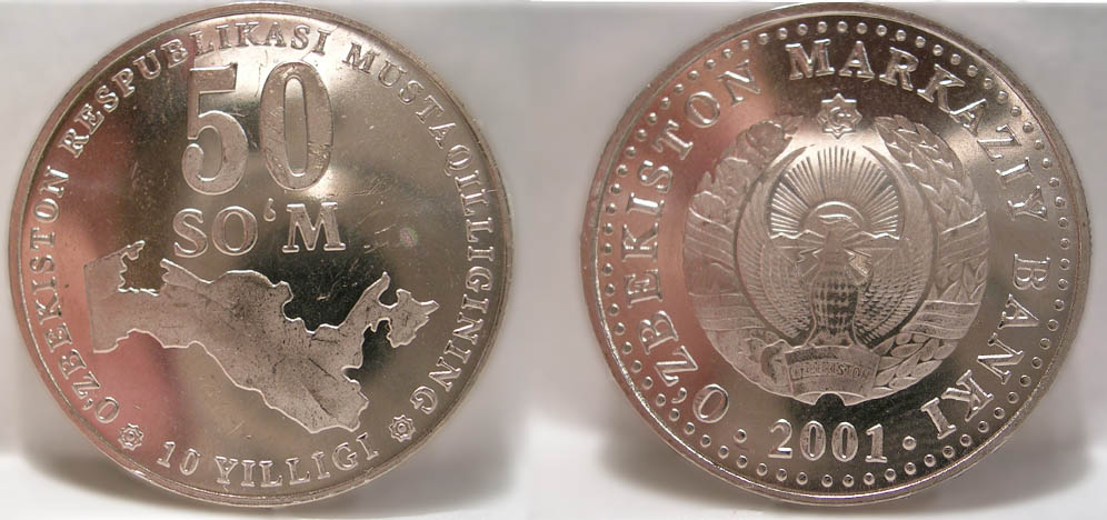 Uzbekistan : Pièce de 50 sums